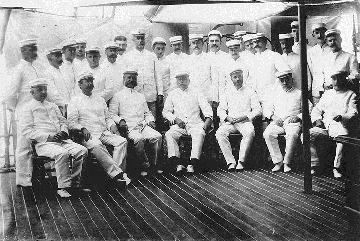 Rear Admiral George Dewey, Commander, U.S. Asiatic Squadron, with the officers and staff of his flagship, the USS Olympia, while at anchor in Manila Bay, The Philippines, circa May 20 to June 1, 1898. Seated (left to right): Medical Inspector Abel F. Price; Lieutenant Corwin P. Rees Commander Benjamin P. Lamberton; Rear Admiral George Dewey; Lieutenant Thomas M. Brumby, Flag Lieutenant; Pay Inspector Daniel A. Smith; and Chief Engineer John D. Ford. Standing (left to right): Ensign Montgomery M. Taylor; Gunner Leonard J.C. Kuhlwein; Assistant Surgeon Dudley N. Carpenter; Naval Cadet William R. White; Ensign Frank B. Upham; Lieutenant Valentine S. Nelson; Naval Constructor Washington L. Capps; Captain William P. Biddle, USMC; Assistant Engineer John F. Marshall, Jr.; Pay Clerk Long (no first name known; Lieutenant (Junior Grade) Samuel M. Strite; Lieutenant Carlos G. Calkins; Ensign William P. Scott; Ensign Harry H. Caldwell, Flag Secretary; Chaplain William H.I. Reaney; Assistant Engineer Edward H. De Lany; Naval Cadet Irwin F. Landis; Ensign Henry V. Butler, Jr.; Lieutenant Stokely Morgan; and Passed Assistant Surgeon John E. Page. U.S. Naval Historical Center Photograph #: NH 43347